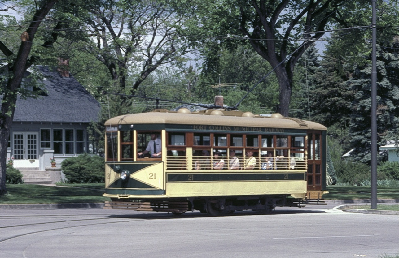 Fort Collins, Colorado streetcar 21, a 1919 Birney-type streetcar, starting to turn onto Roosevelt Avenue from Mountain Avenue in 1987, on the heritage trolley line that opened in December 1984. Car 21 was built by the American Car Company, a subsidiary (after 1902) of the J. G. Brill Company.